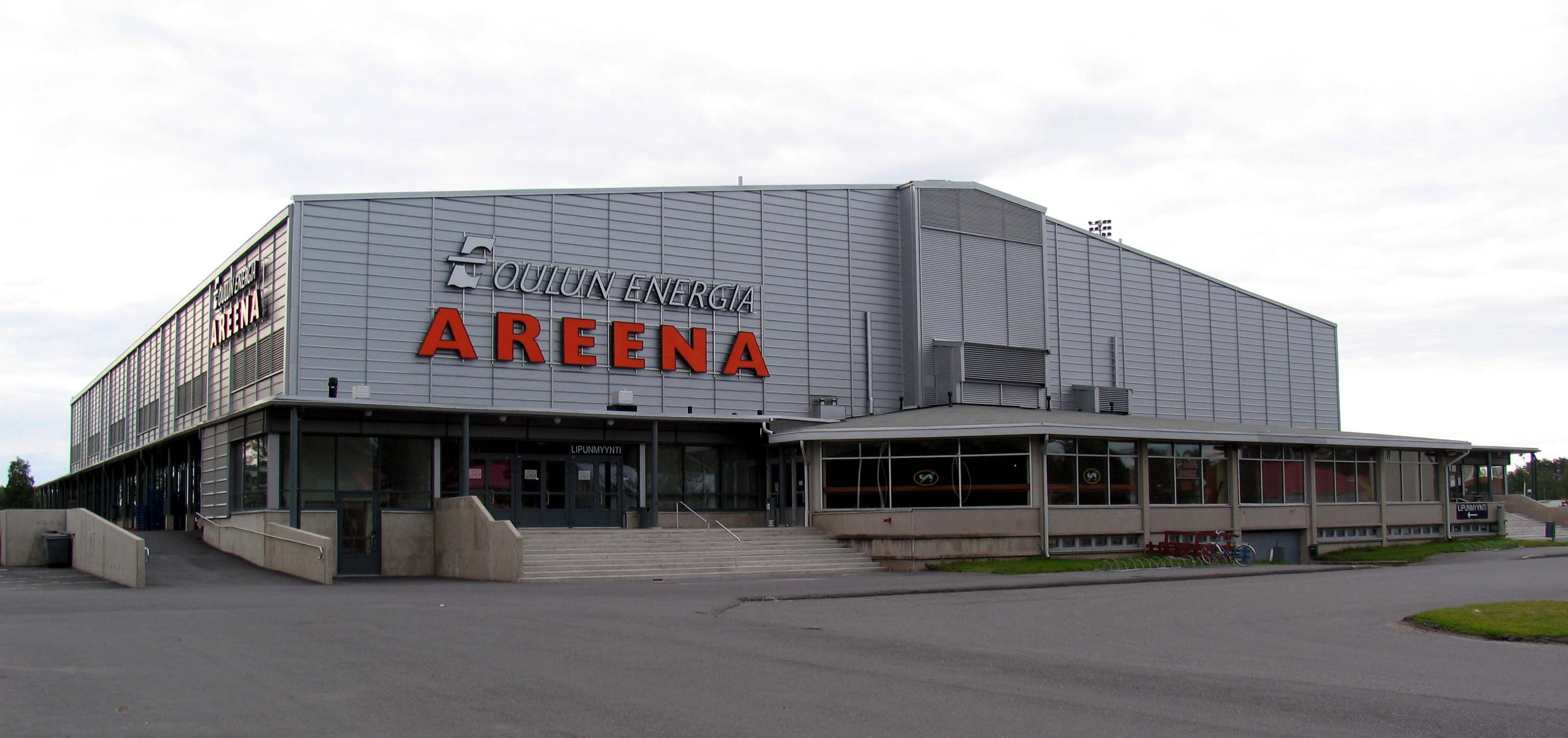 Oulun Energia Areena (Oulu ice hall) in Raksila, Oulu, Finland